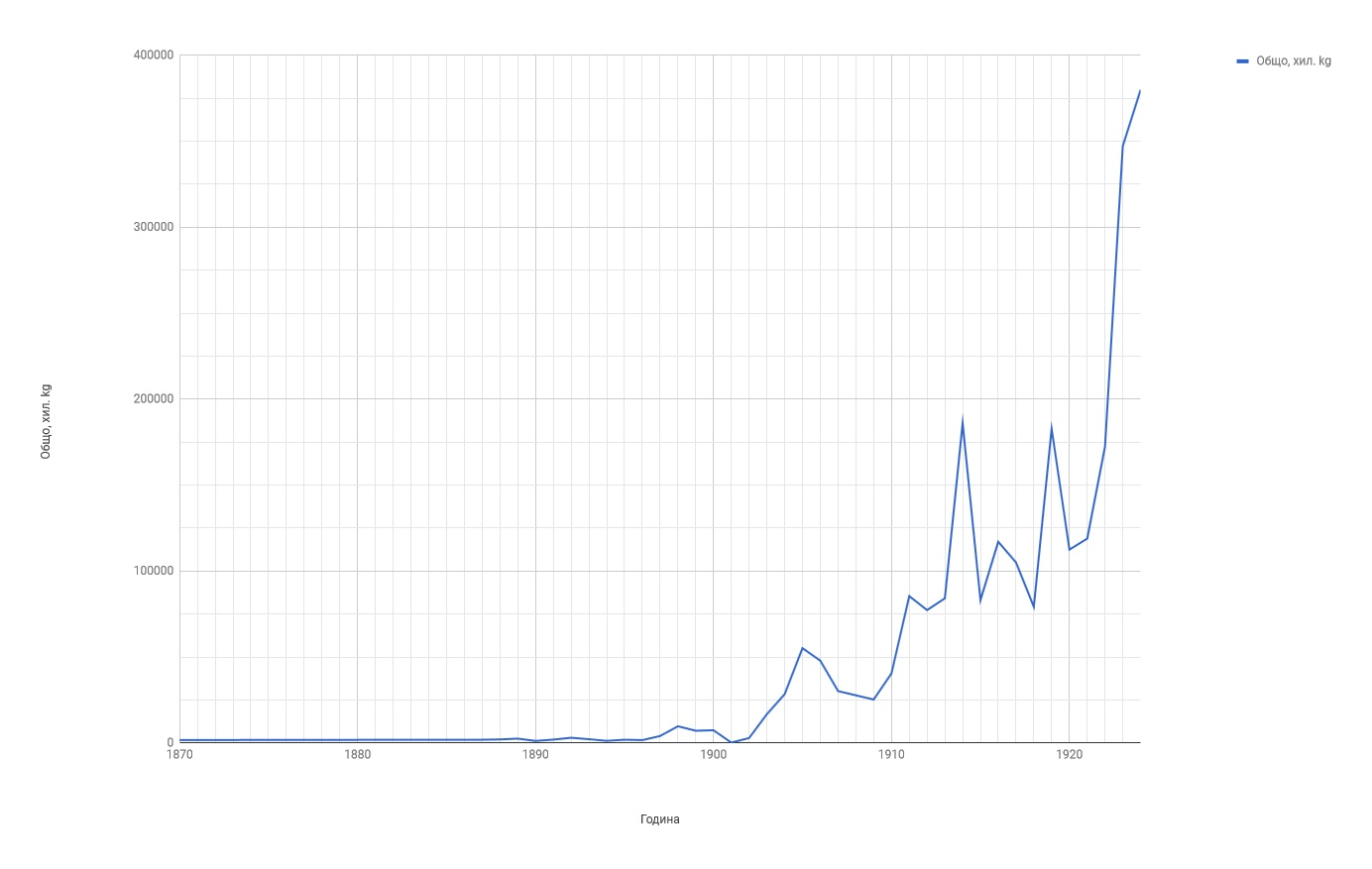 Industrial crops yields in Bulgaria, 1870-1924